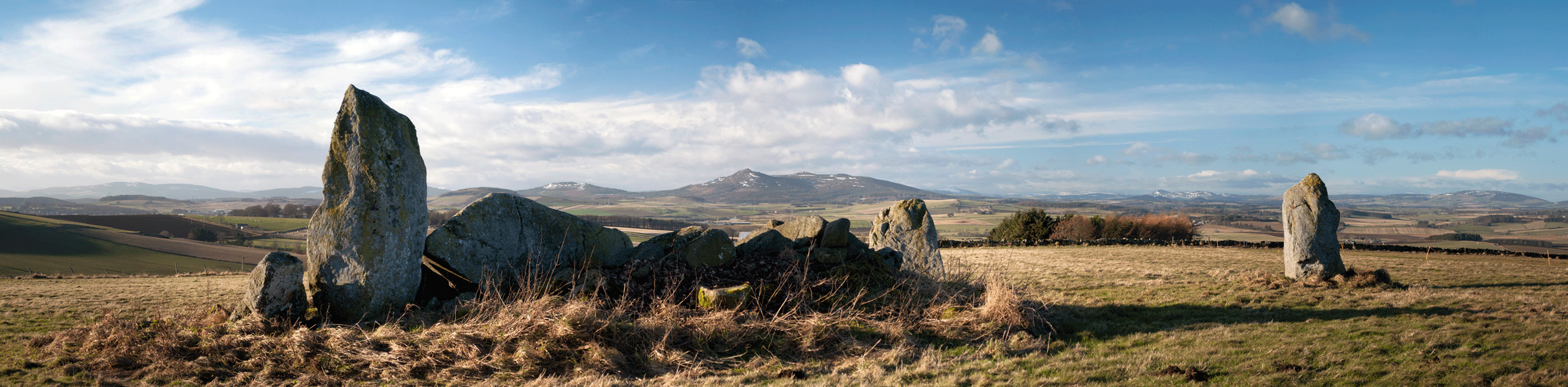 Kirkton of Bourtie stone circle - Map Ref: NJ801250 Landranger Map Number: 38